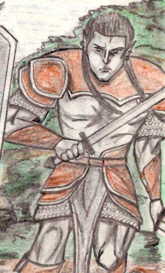 Celegorm